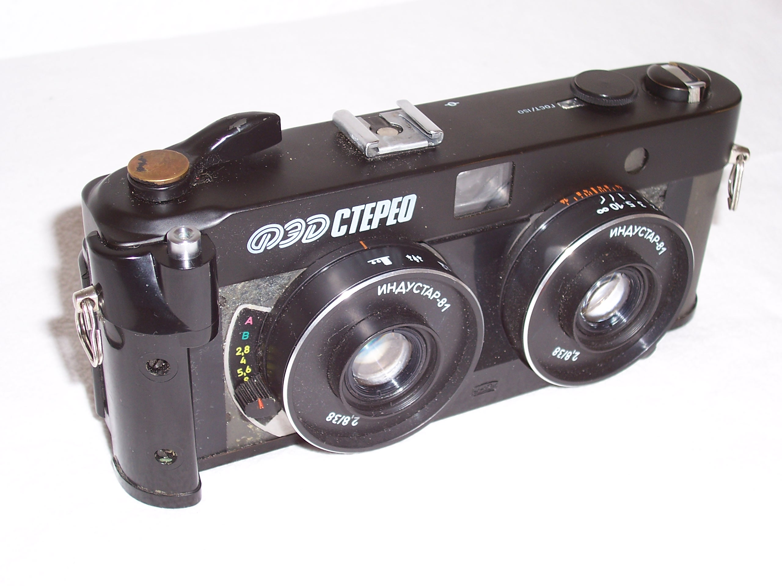 A used FED Stereo stereo camera (that already had some self repair)